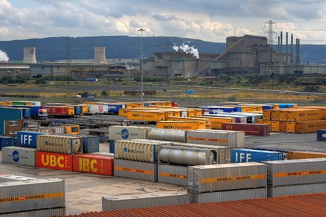 Container Yard,Teesport Corus Teesside Works in the distance (NZ5522).